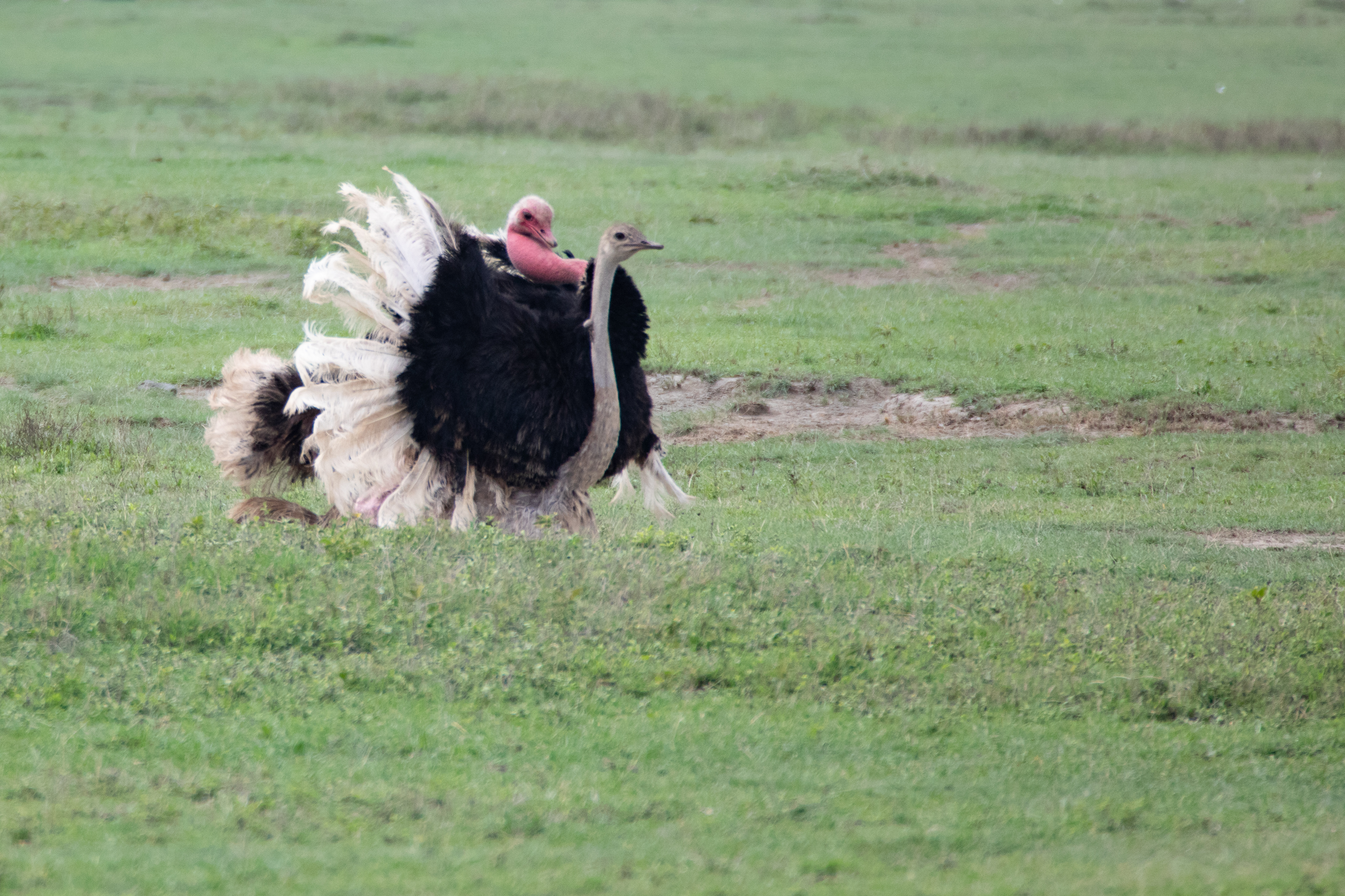 common ostrich mating in ngorongoro